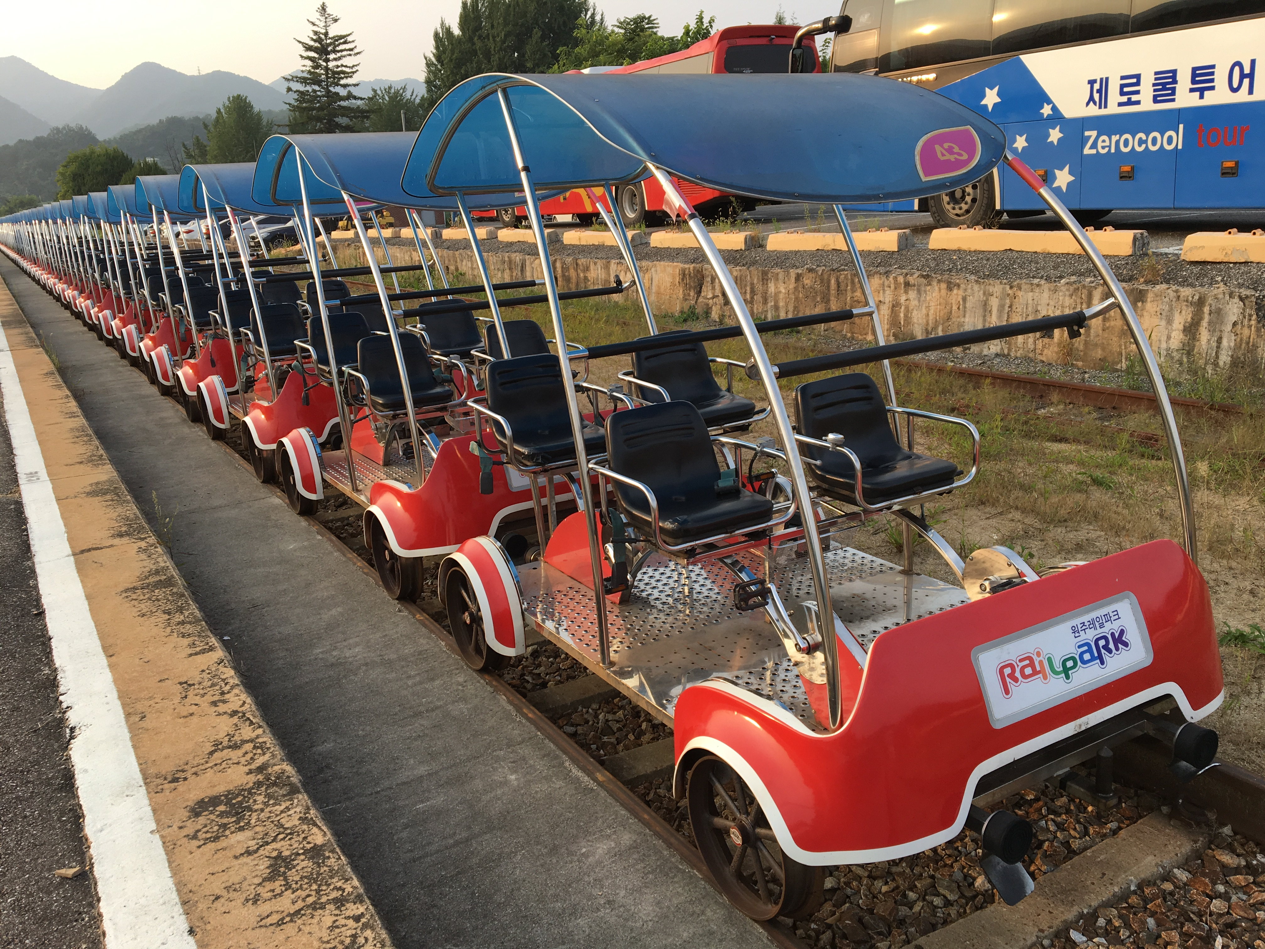 Wonju Rail park